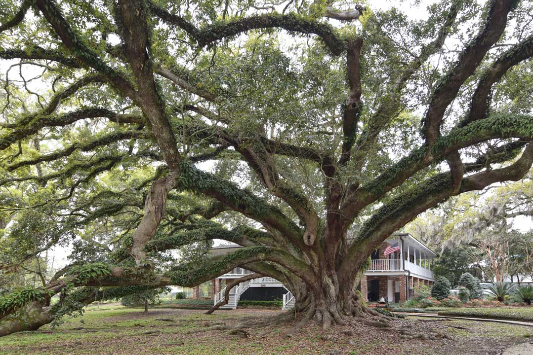 View from east side of tree, with home of current owners in background.